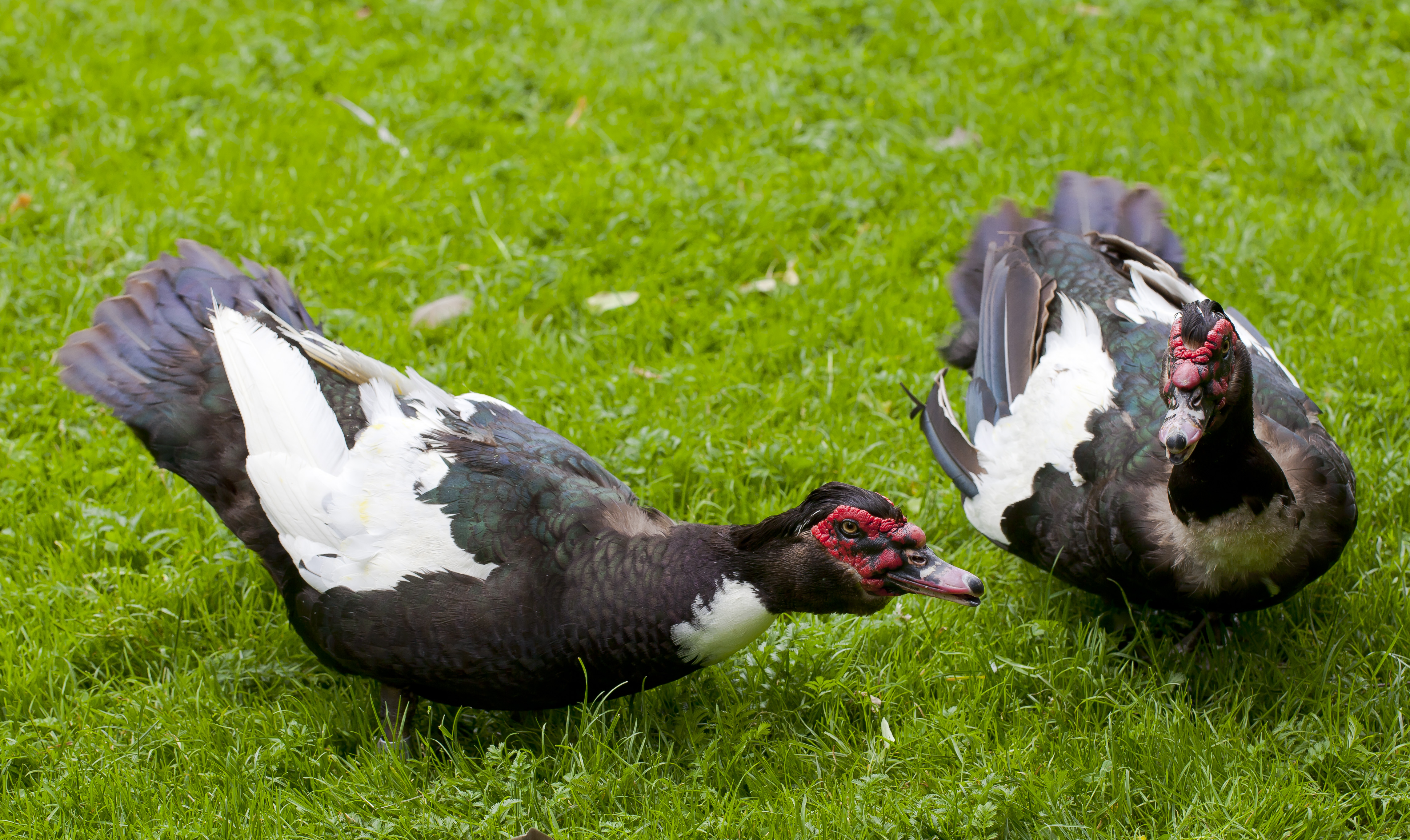 Muscovy Duck (Cairina moschata domestica), Tierpark Hellabrunn, Munich, Germany